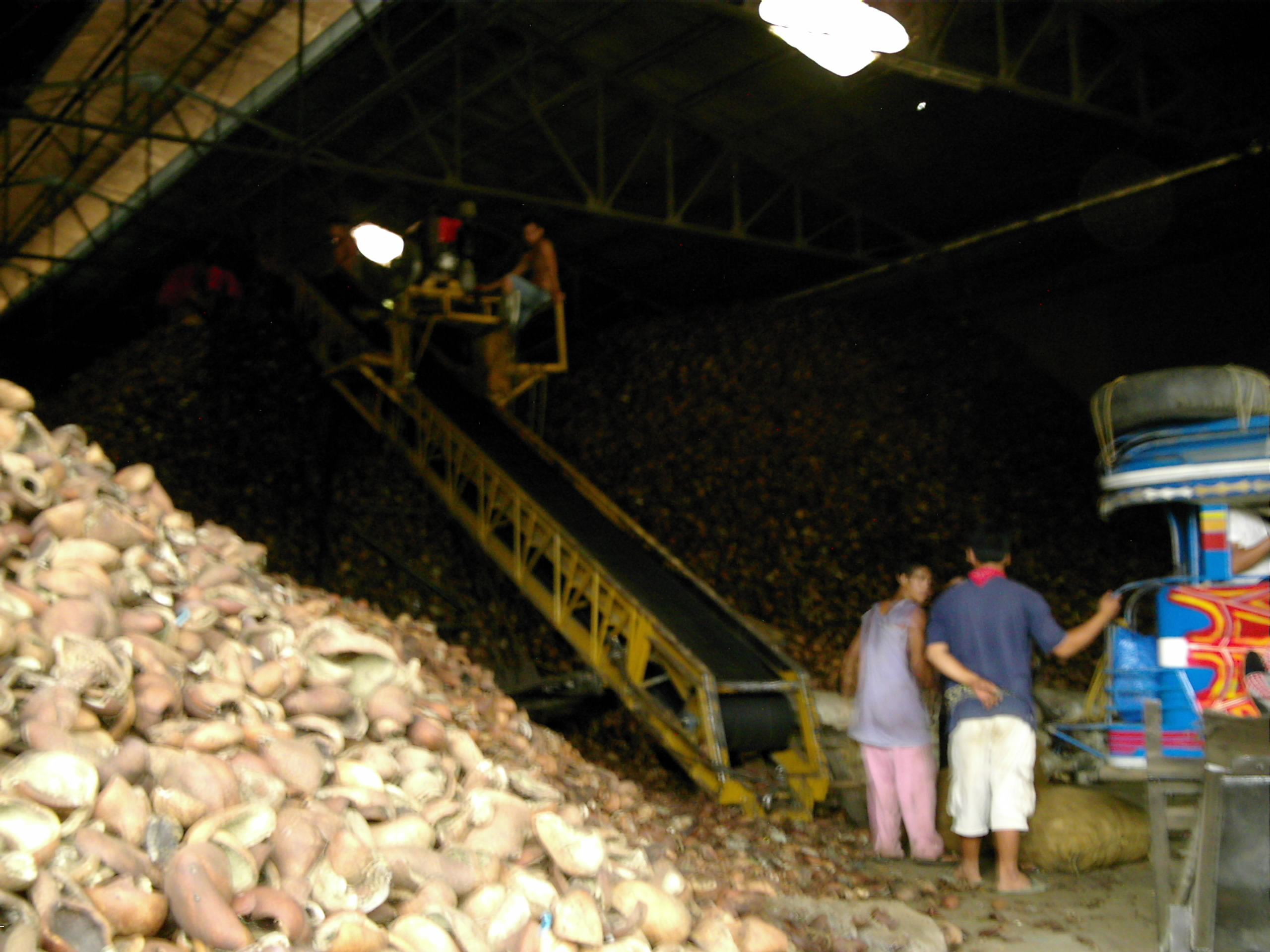 photo of a coconut (copra)processing plant in Basilan